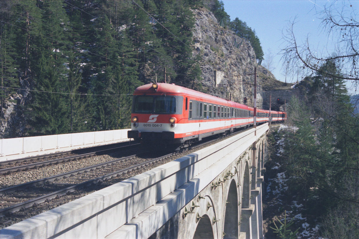 ÖBB 6010 004-7 passing the Krauselklausen viaduct of the Semmering Railway in Austria